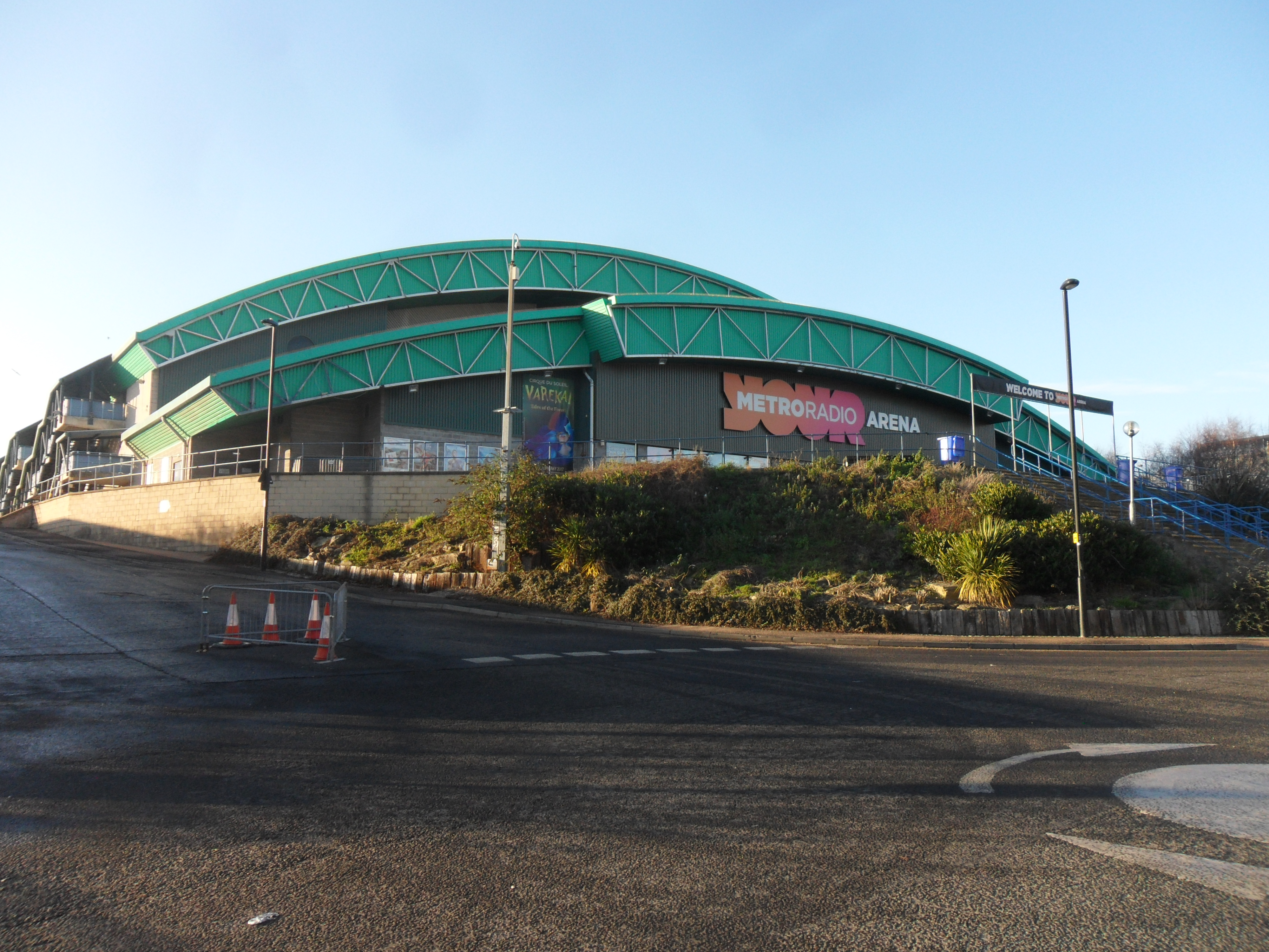 Metro Radio Arena, Newcastle upon Tyne